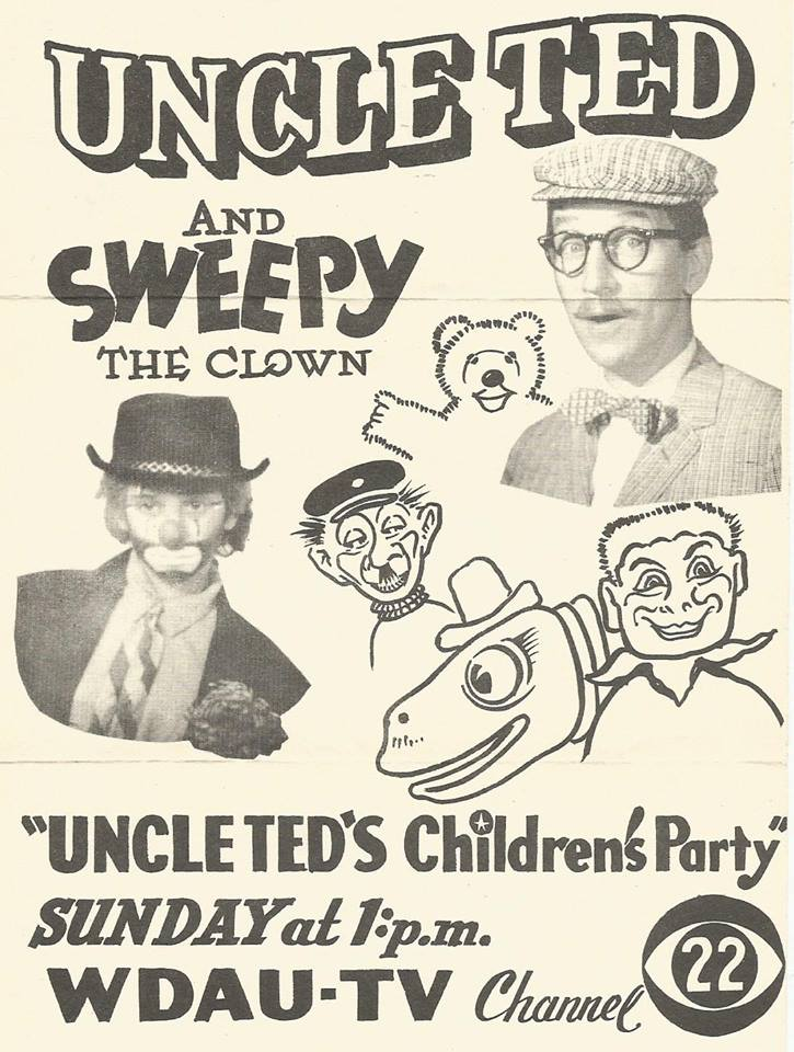 An old advertisement for "Uncle Ted's (Edwin Raub) Children's Party" from the late 1950's posted by his daughter Ruth Raub Bessmer on Facebook